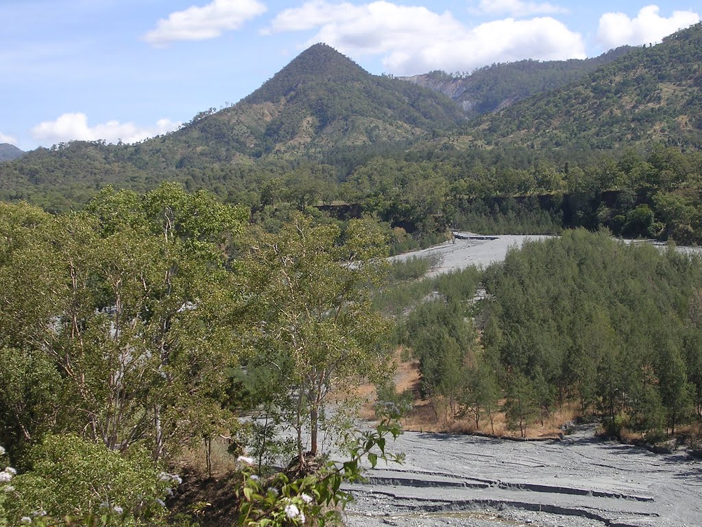 Tropical dry forest and riparian Casuarina forest along the Laleia River, Laleia, Manatuto